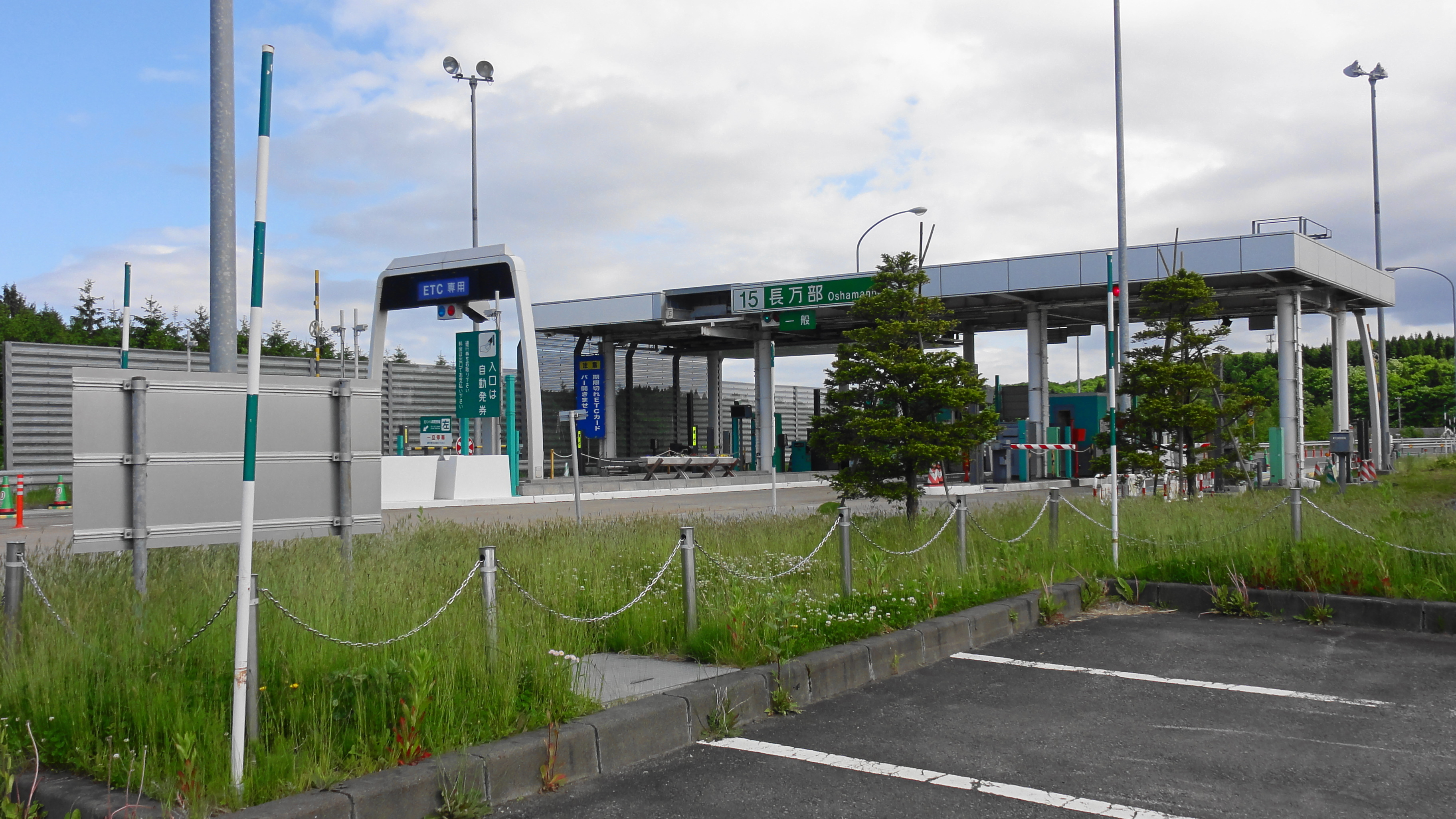 Oshamanbe Inter Change,Hokkaido Prefecture, Japan